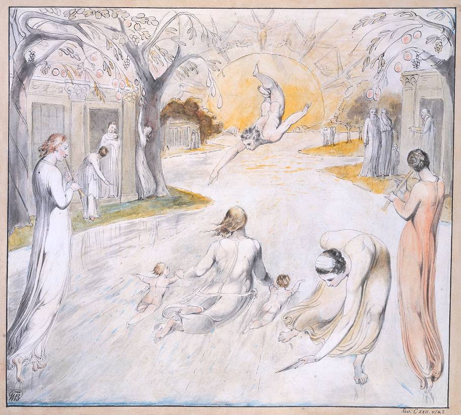 Artwork details Artist William Blake (1757‑1827) Title The River of Life Date c.1805 MediumInk and watercolour on paper Dimensionsimage: 305 x 336 mm support: 442 x 432 mm Collection Tate Britain Acquisition Bequeathed by W. Graham Robertson 1949 This work illustrates lines from the Book of Revelation. The River of Life flows from the throne of God to the Tree of Life. It is also a rare example of how Blake presented his watercolours: he drew the washline border between ruled ink lines. The yellow tone of the paper is the result of over-exposure to light. This caused some of the original blue paint (indigo perhaps) to fade; the fuzzy band of Prussian blue on the lower edge, and spots of the same colour in the river, were added later by someone trying to ‘correct’ this fading.